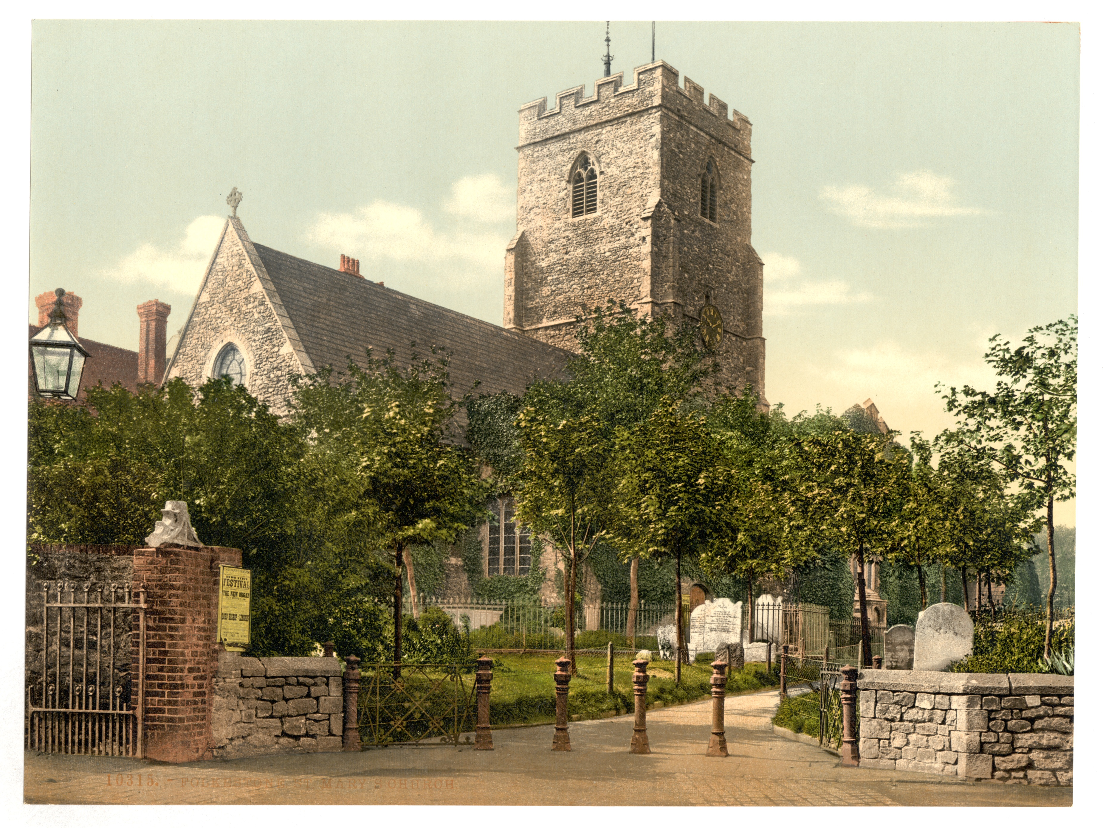 Print no. "10315".; More information about the Photochrom Print Collection is available at Title from the Detroit Publishing Co., Catalogue J-foreign section, Detroit, Mich. : Detroit Publishing Company, 1905.; Forms part of: Views of the British Isles, in the Photochrom print collection.